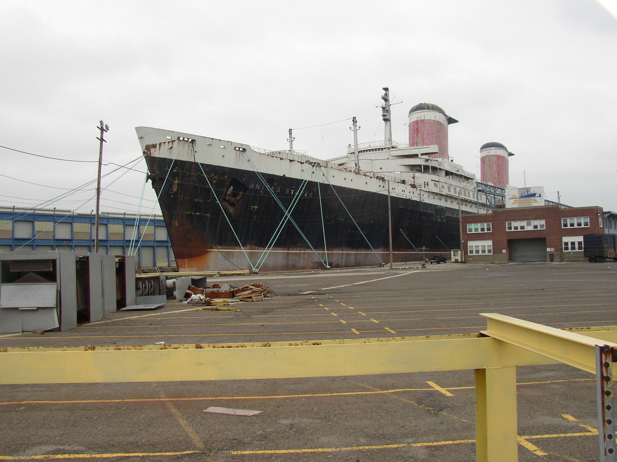 Photo of SS United States from Columbus Blvd (aka Delaware Ave) December 2005